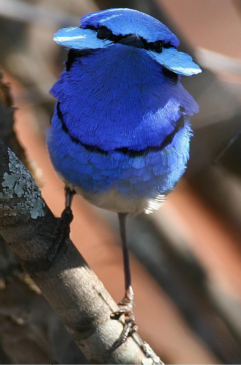 Splendid_Fairy_Wren_-_Lake_cargelligo, Face Fan display